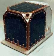 SURFSAT (Summer Undergraduate Research Fellowship SATellite)